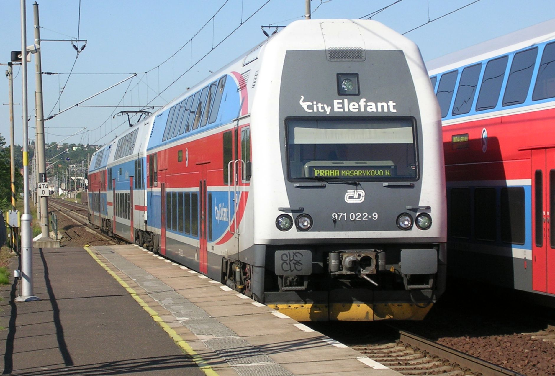 Dobříň, Litoměřice District, the Czech Republic. A train at a train stop. - Google Maps - Google Earth